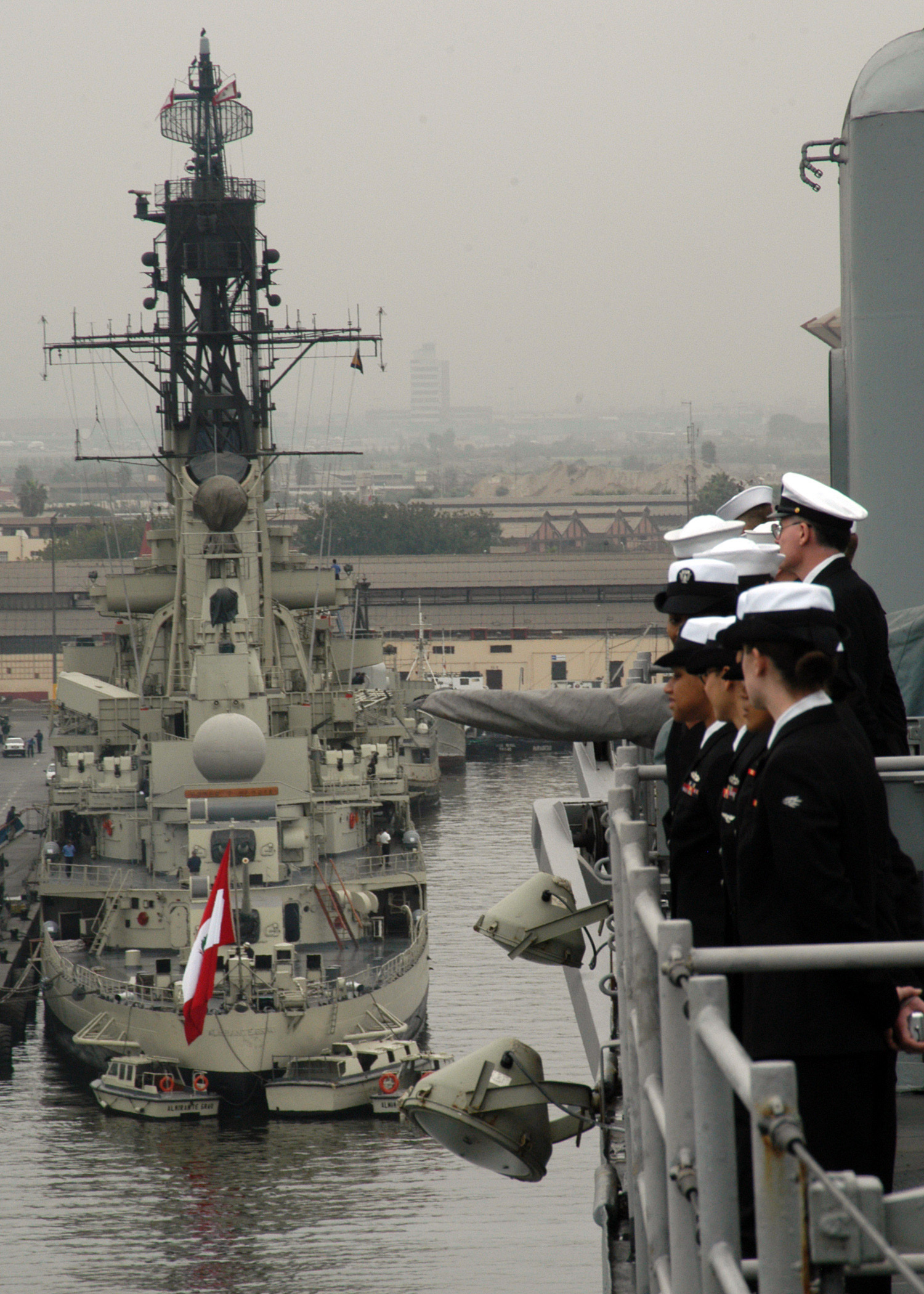 U.S. Navy Sailors aboard USS Pearl Harbor (LSD 52) over look a Peruvian navy ship while pulling in to Callao, Peru, July 2, 2007, during Partnership of the Americas (POA) 2007. POA is focusing on enhancing relationships with partner nations through a var iety of exercises and events at sea and on shore throughout South America, Latin America, and the Caribbean.